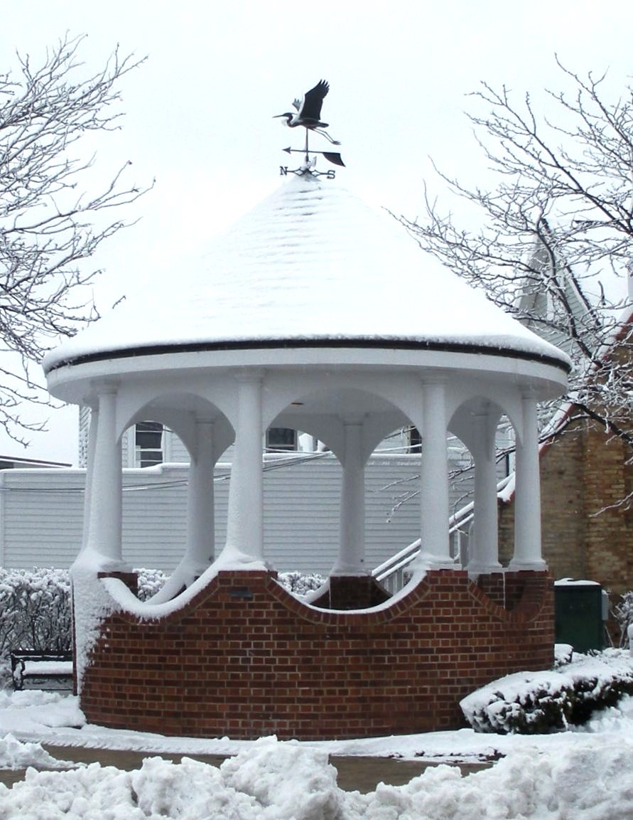 Corrected picture of gazebo in Barrington, Illinois.